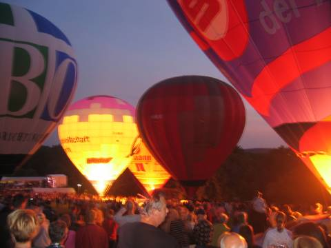 Balloon glow in the light festival at the health resort park municipality Nümbrecht. - Ballonglühen beim Lichterfest im Kurpark der Gemeinde Nümbrecht. Author mrfinch Time of creation 2003 Licence GNU FDL and CC-by-SA Camera Canon S 45